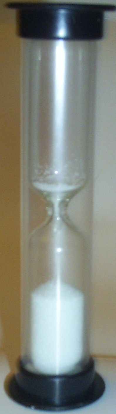 Picture of an "hourglass" egg timer.